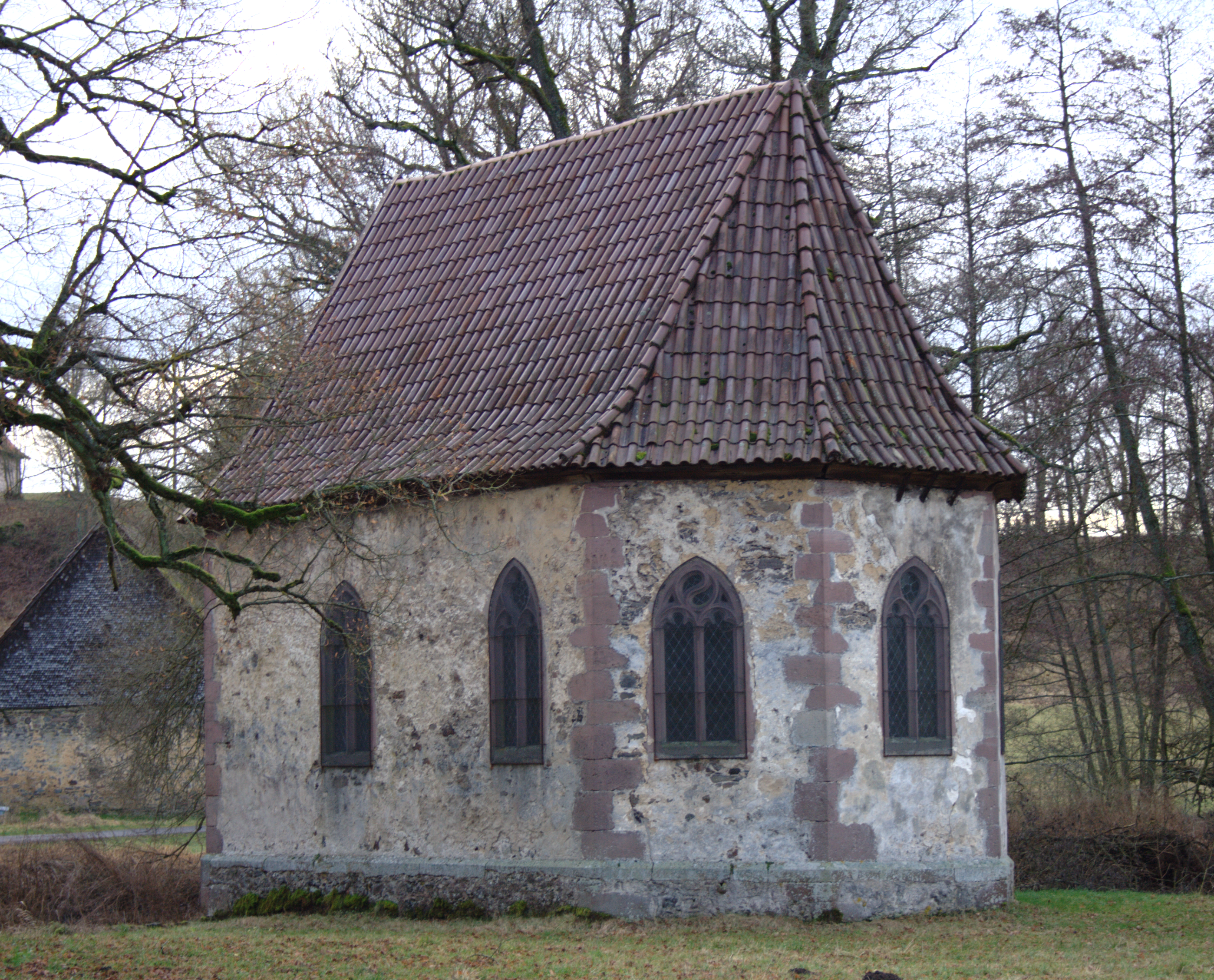 Chapel near Schloss Eisenbach, Hofwiesekap 11, Frischborn, Lauterbach, Hessen, Germany